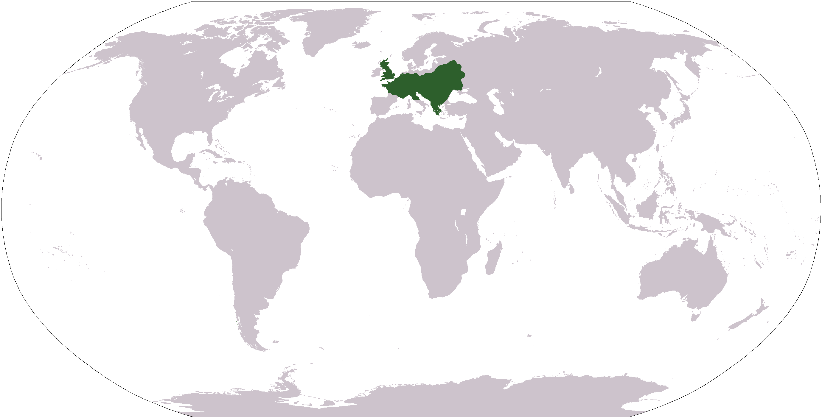 areas of were the species Triops cancriformis has been found